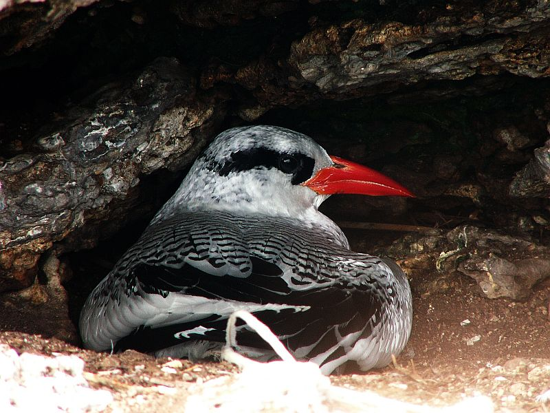 Red-billed Tropicbird (Phaethon aethereus subsp. aethereus) at Abrolhos, Bahia, Brazil.